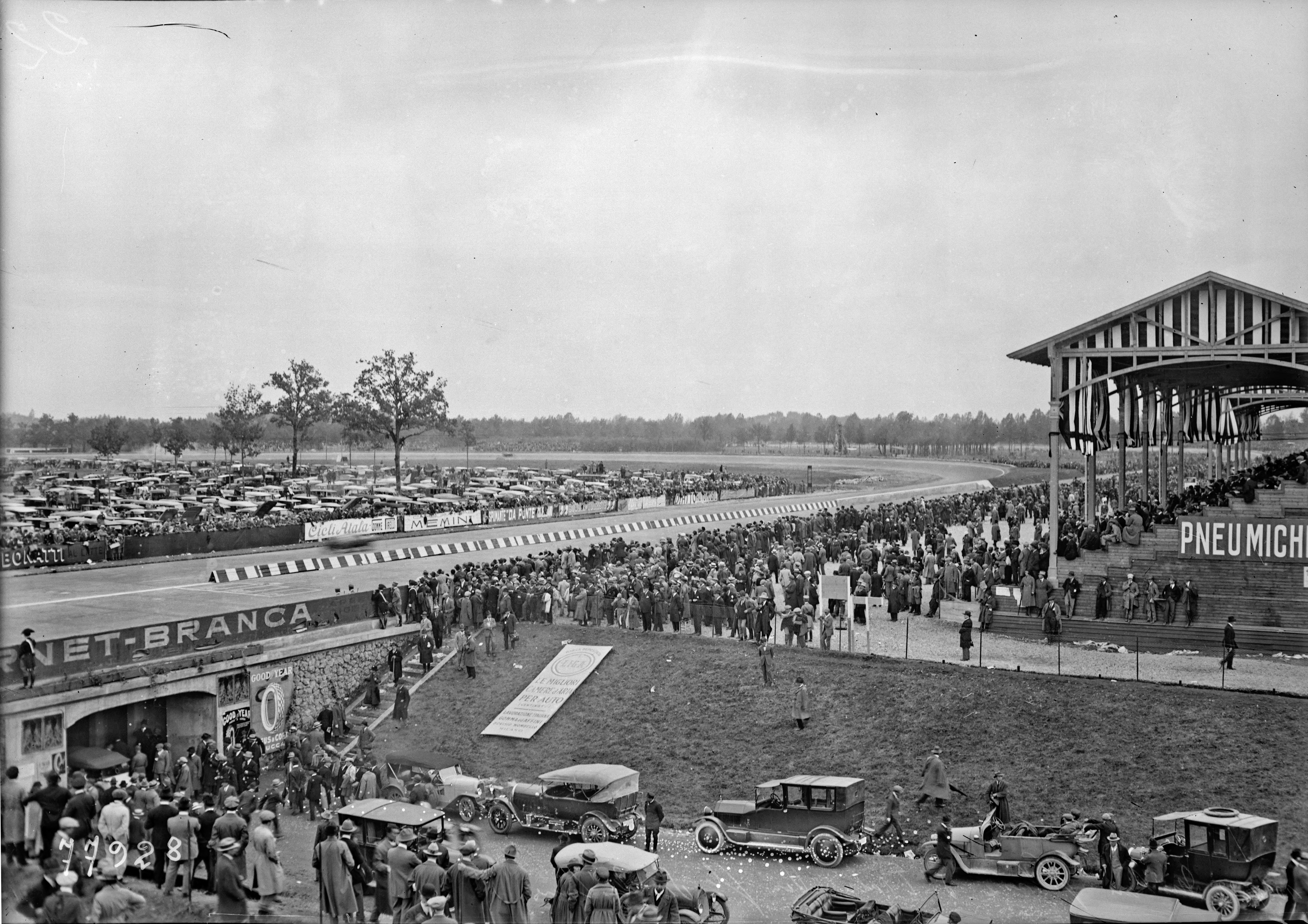 Crowds at the 1922 Italian Grand Prix